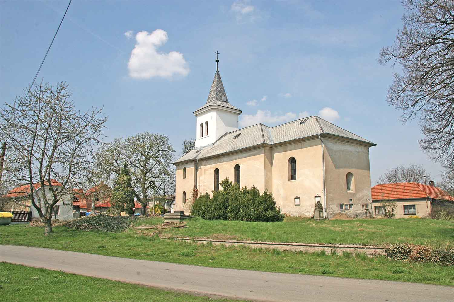 Church of St Bartholomew in Býchory near Kolín, Czech Republic.